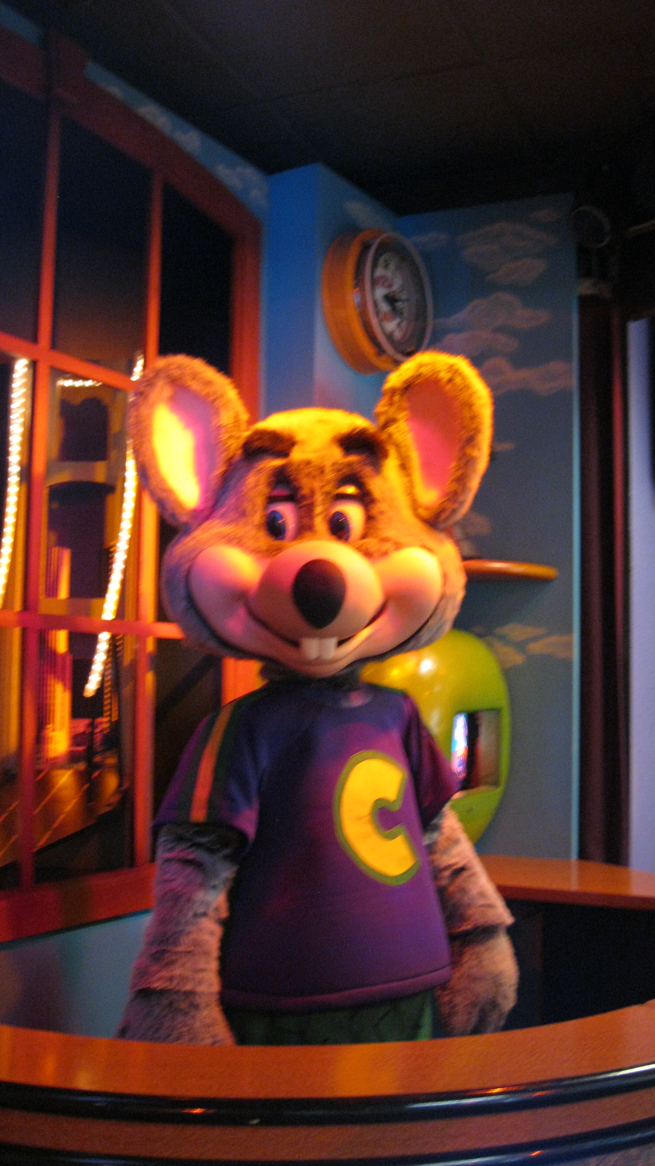 Chuck E. Cheeses Animatronic